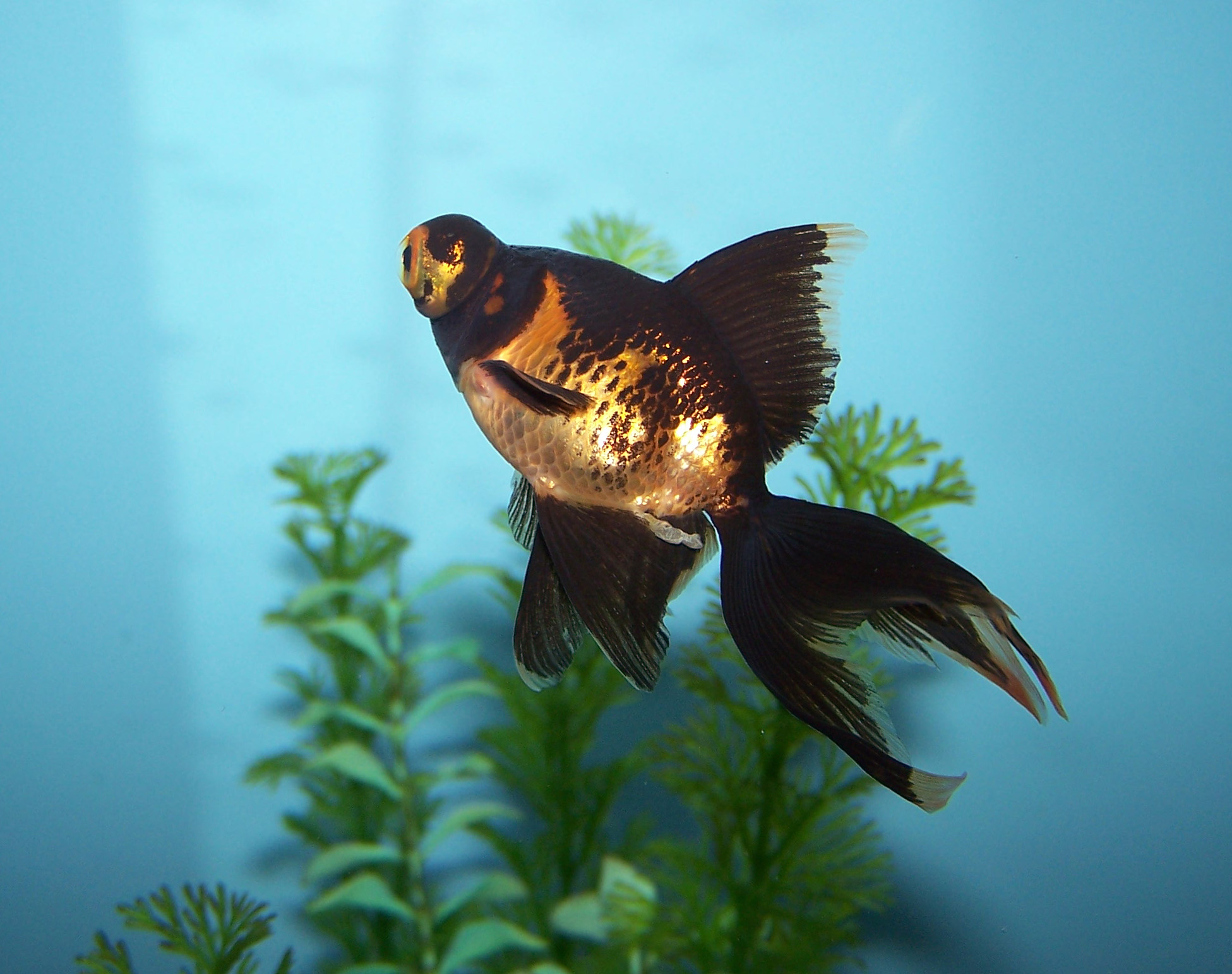 Black Moor turning gold.